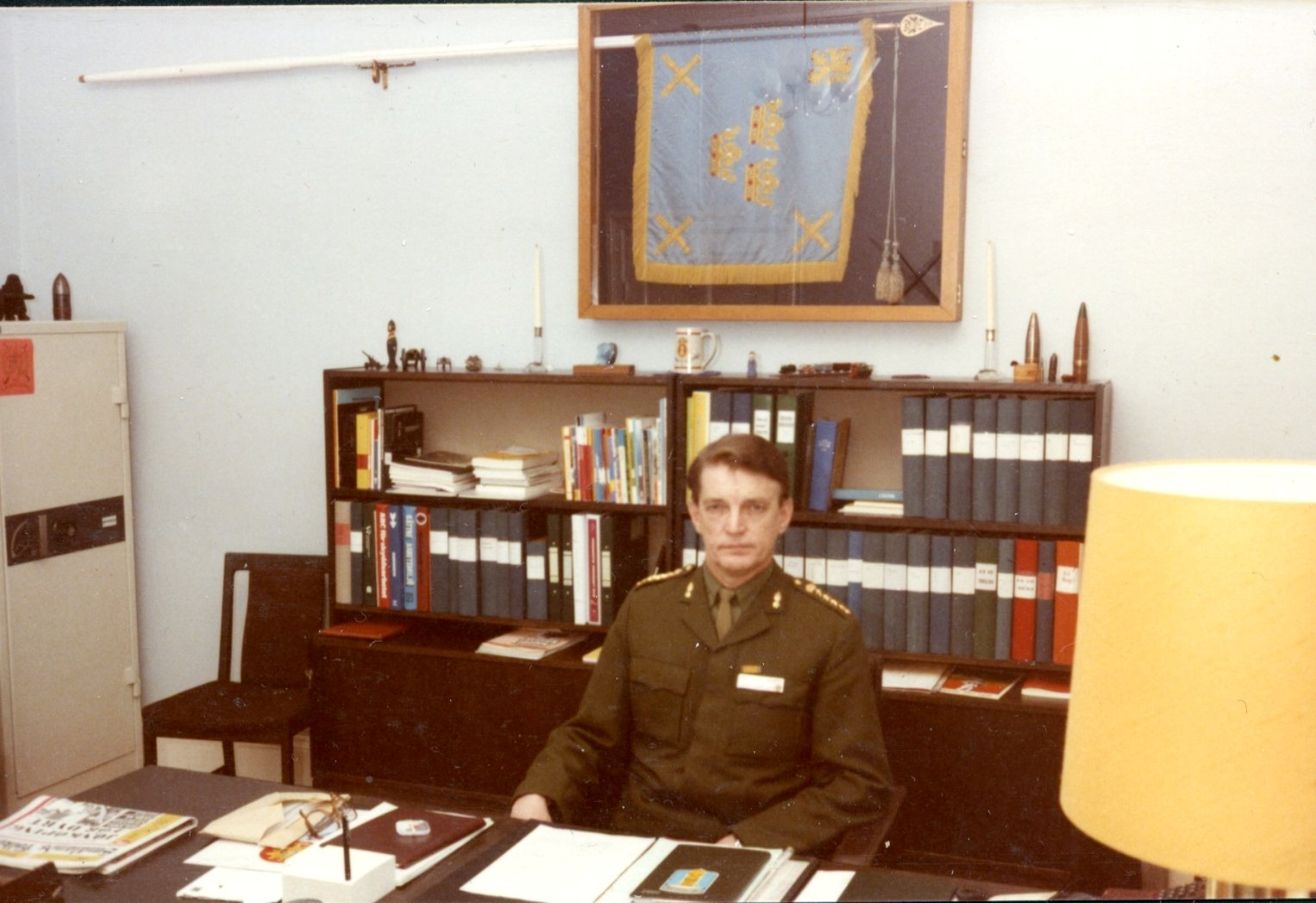 Colonel Lars Carlson, regimental commander of Småland Artillery Regiment (A 6).